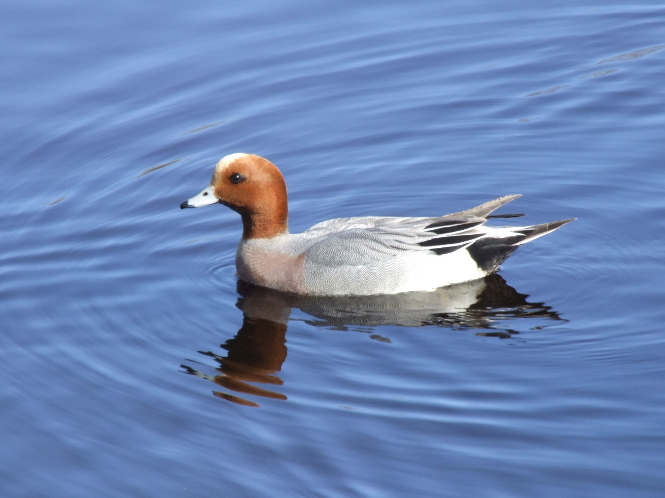 Male wigeon, Hupisaaret park, Oulu, Finland